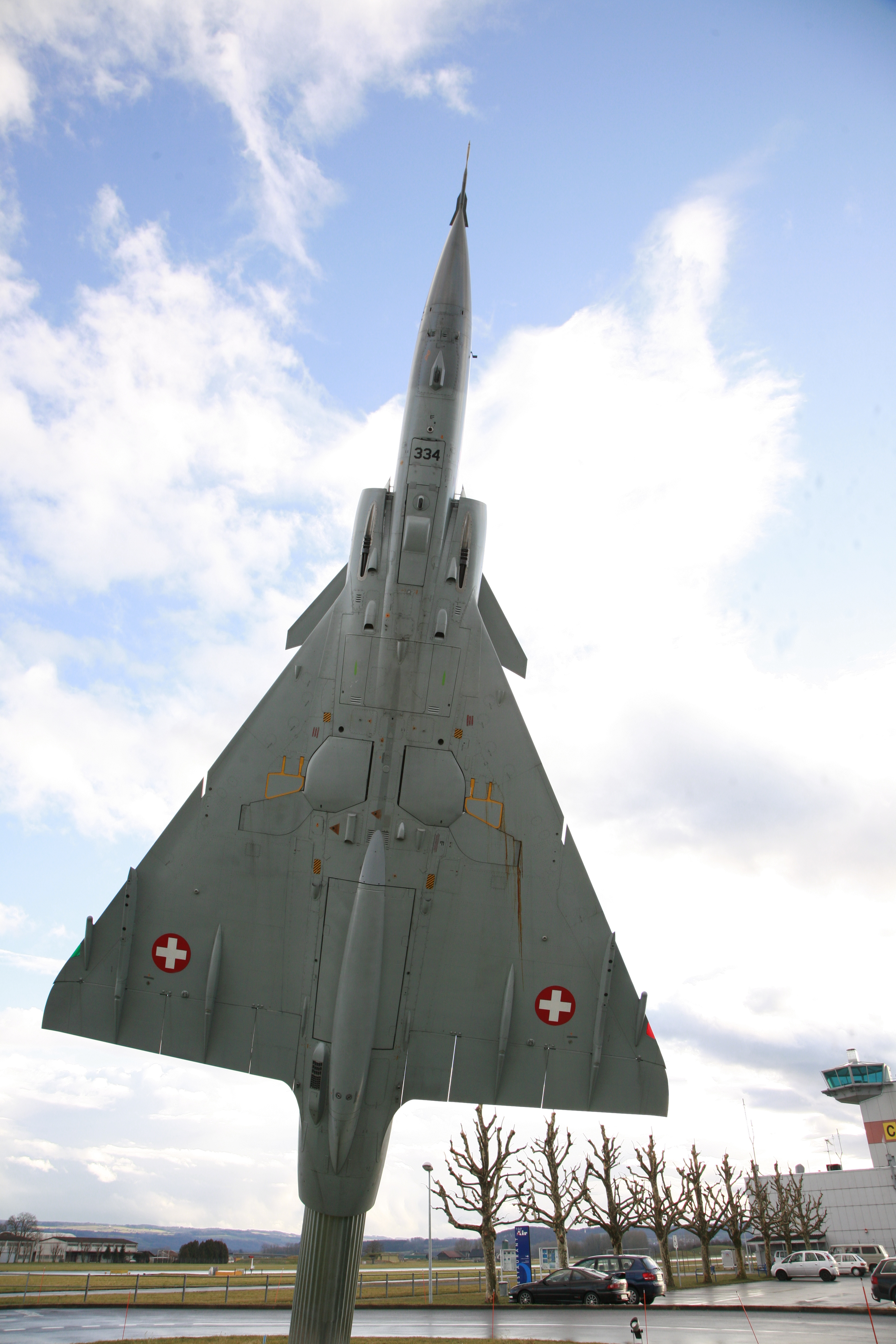 Dassault Mirage III of the Swiss Air Force, on display at Payerne Airbase.